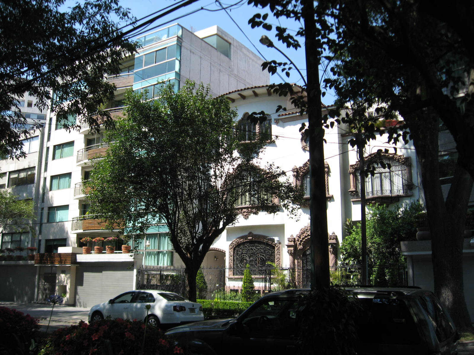 an older home wedged between 2 apt buildings in the Polanco neighborhood of Mexico City